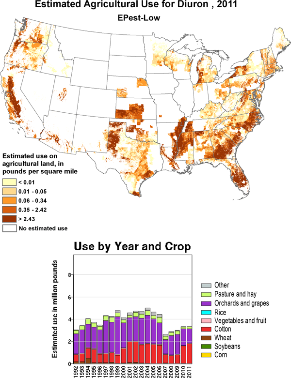 Diuron map of use, USA, 2011 (estimated)